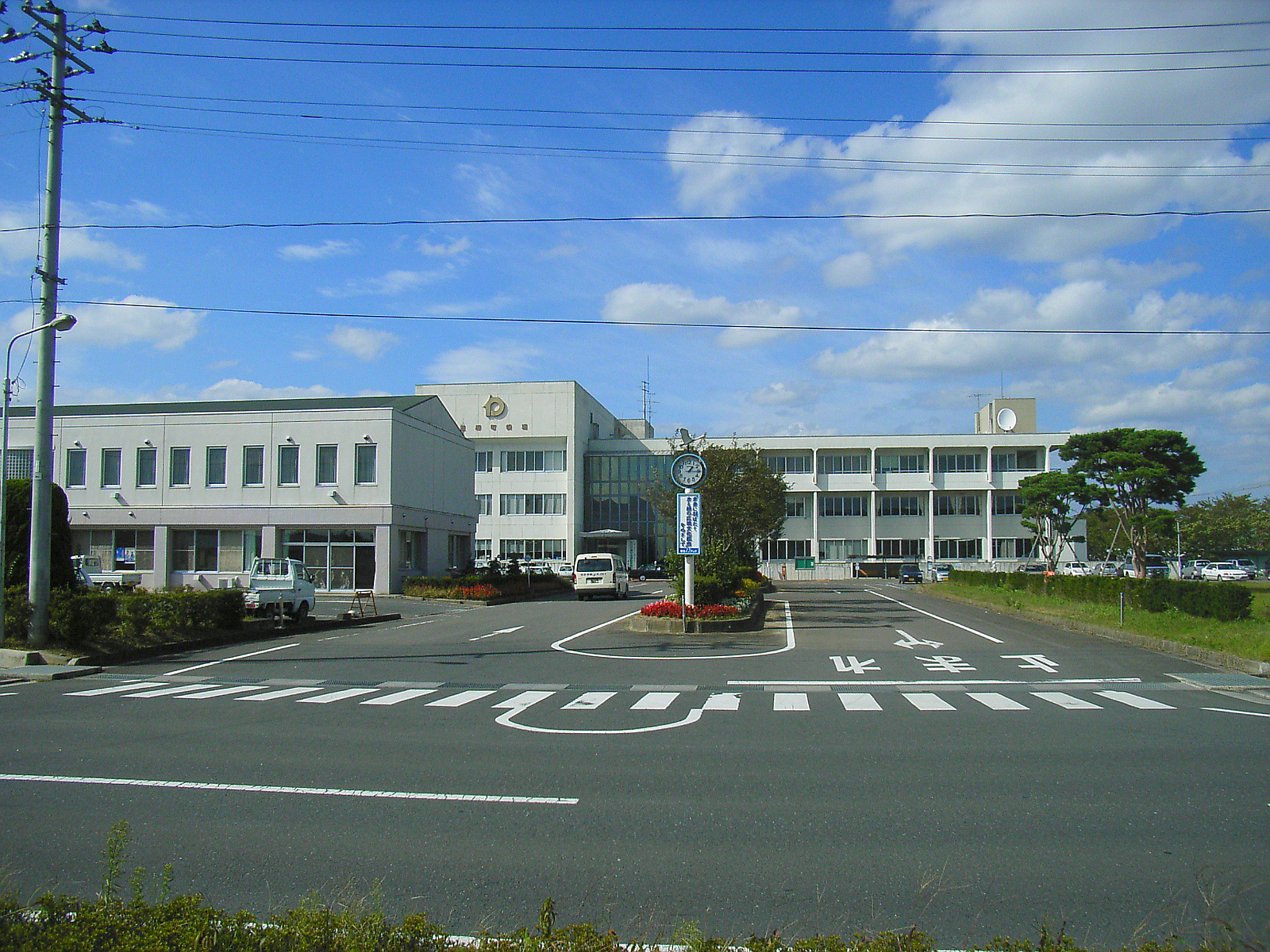 Wakayanagi Branch of the Kurihara City Office. (Former Town Office of Wakayanagi) Kurihara, Miyagi prefecture, Japan.